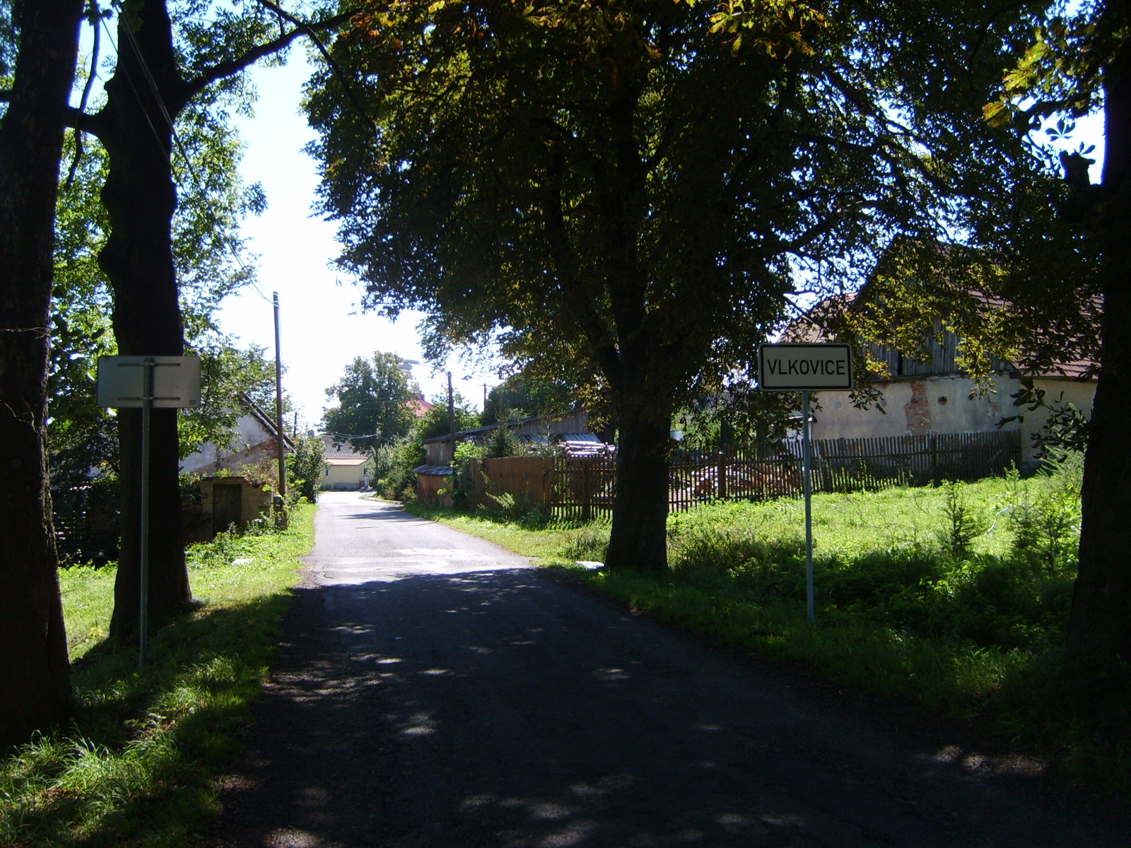 Entry to Vlkovice, Ched District.